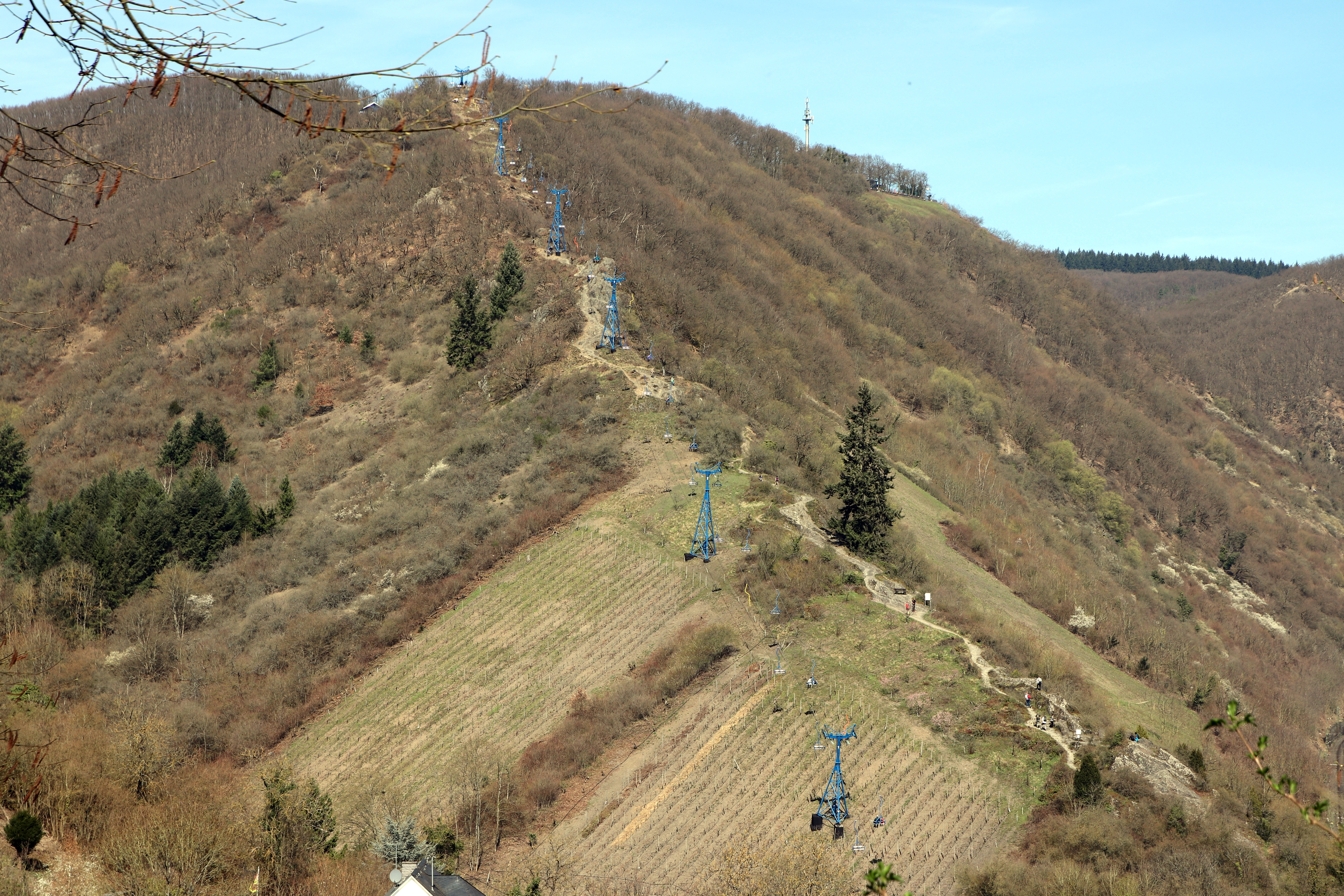 View of the Vierseenblock lift from the Elfenlay Trail